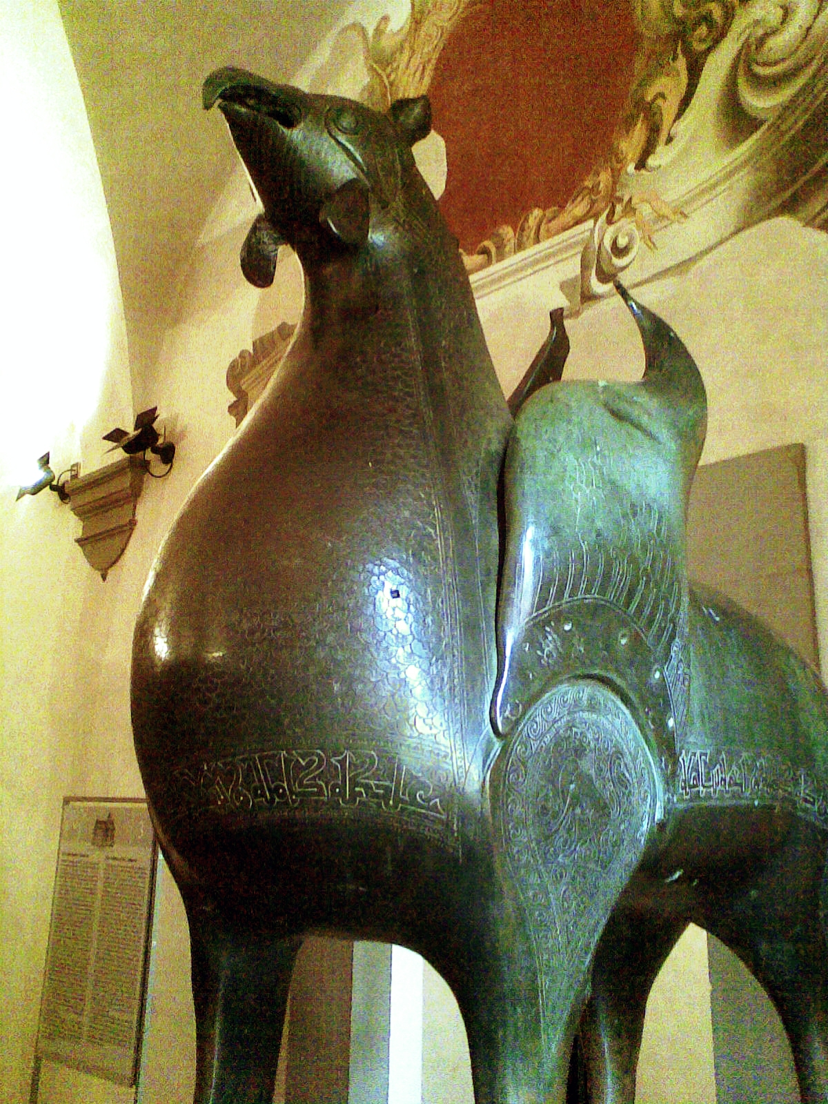 Pisa, Museo dell'Opera del Duomo: Griffin-shaped fountain spout. Bronze. Early 11th. century artwork from Al-Andalus or Fatimid Egypt (from Palermo ?)